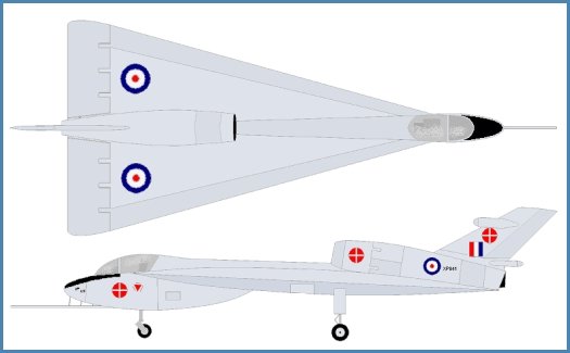 Rutan space ship one